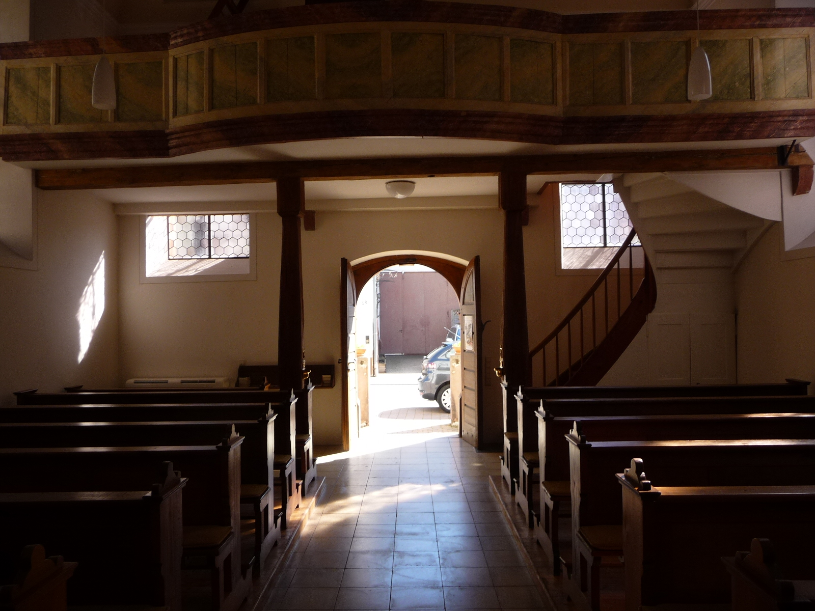 church of Kleinfischlingen in Rhineland-Palatinate, Germany